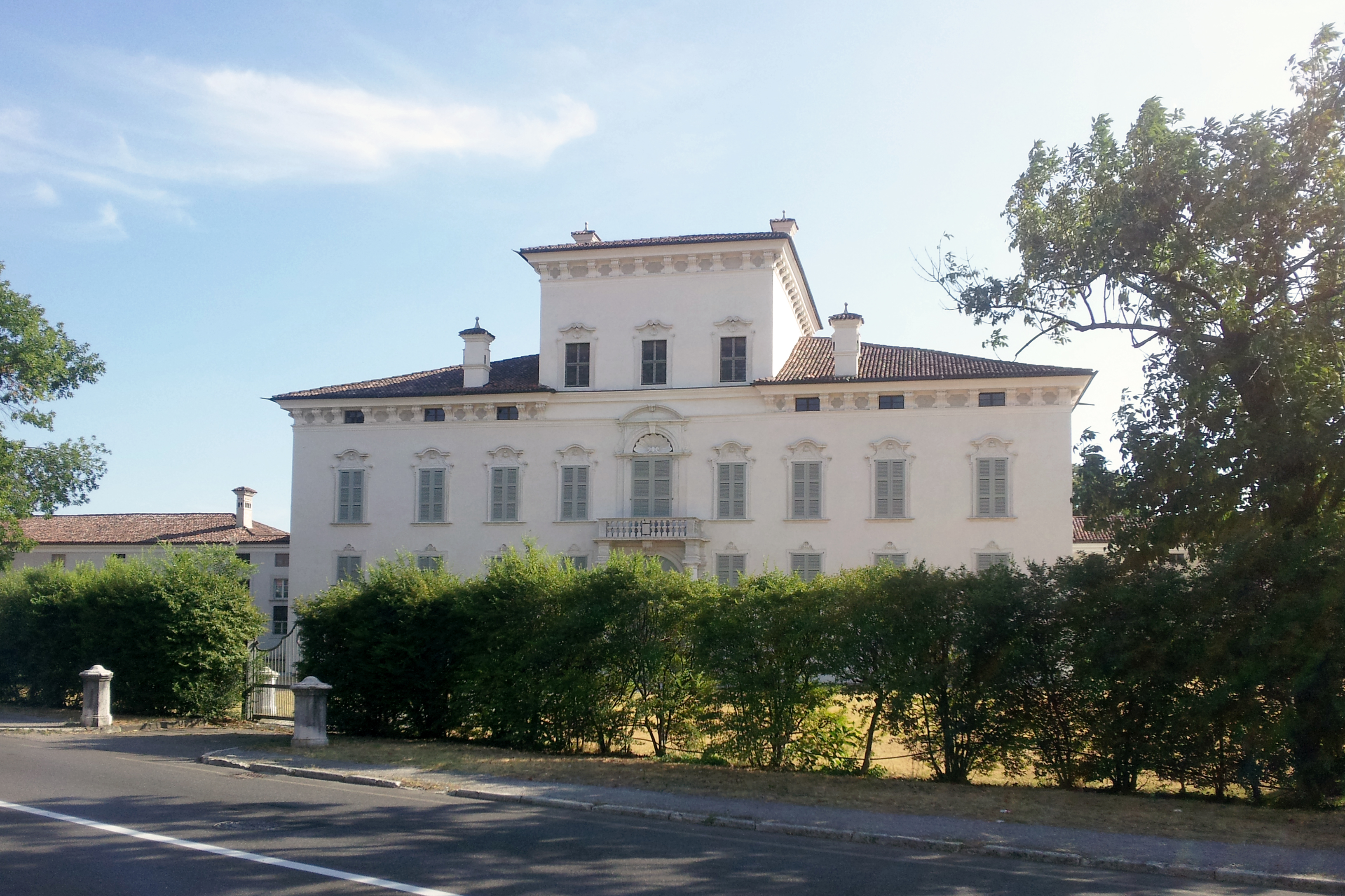 Palazzo Lechi a Montirone